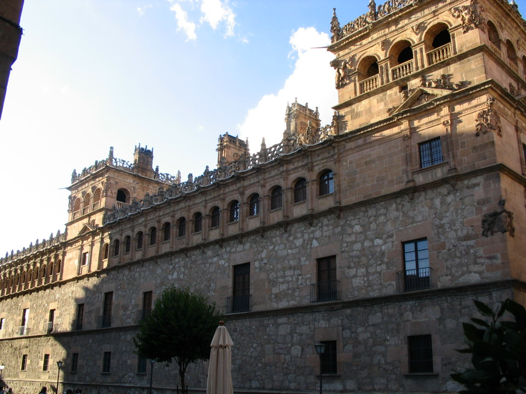 The Palace of Monterrey in Salamanca (Spain).